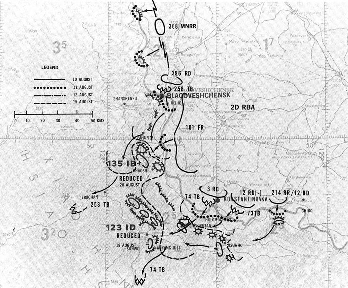 Soviet 2d Red Banner Army Operations, 9-15 August 1945